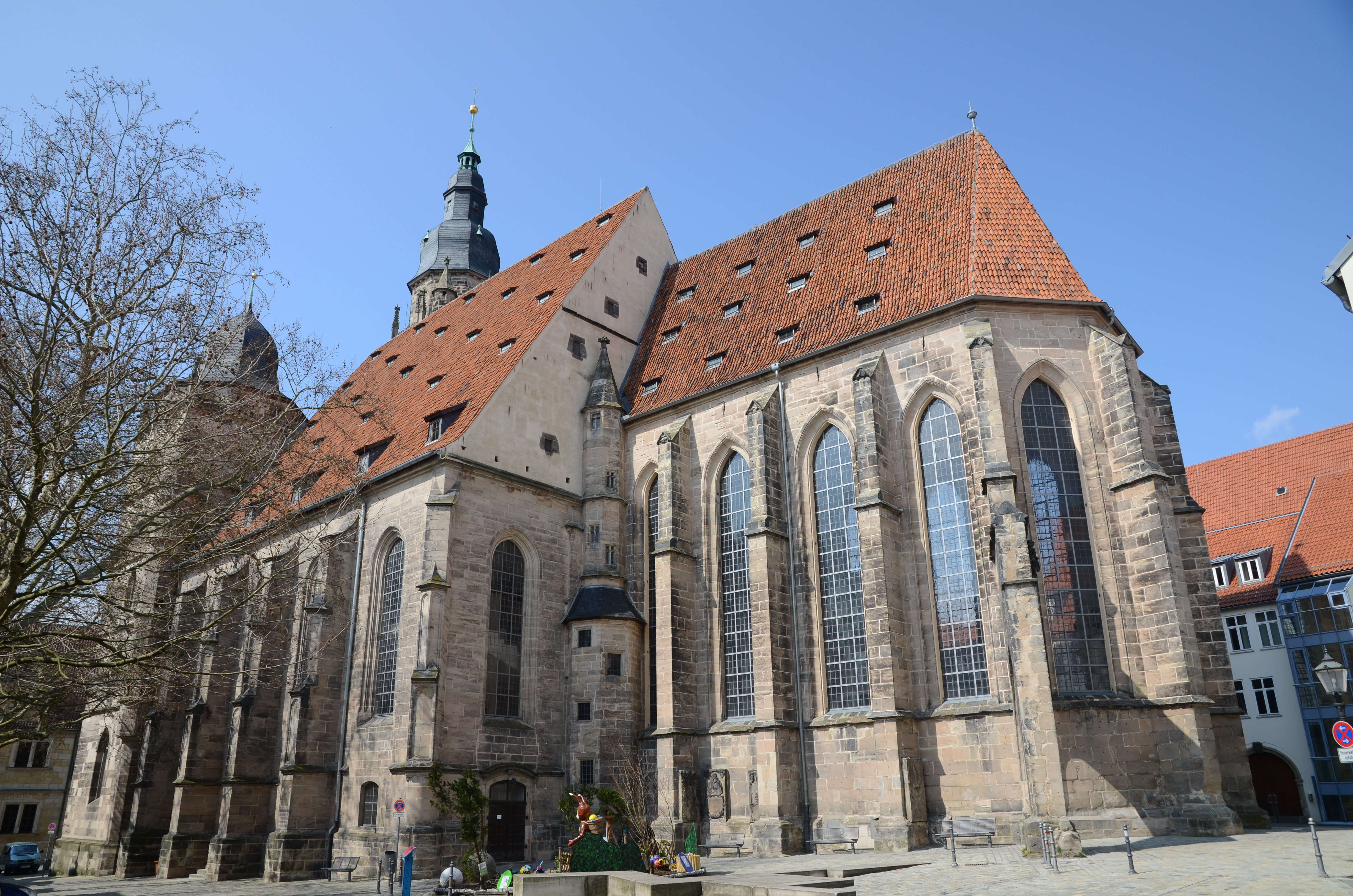 evang.-luth. Moritzkirche in Coburg